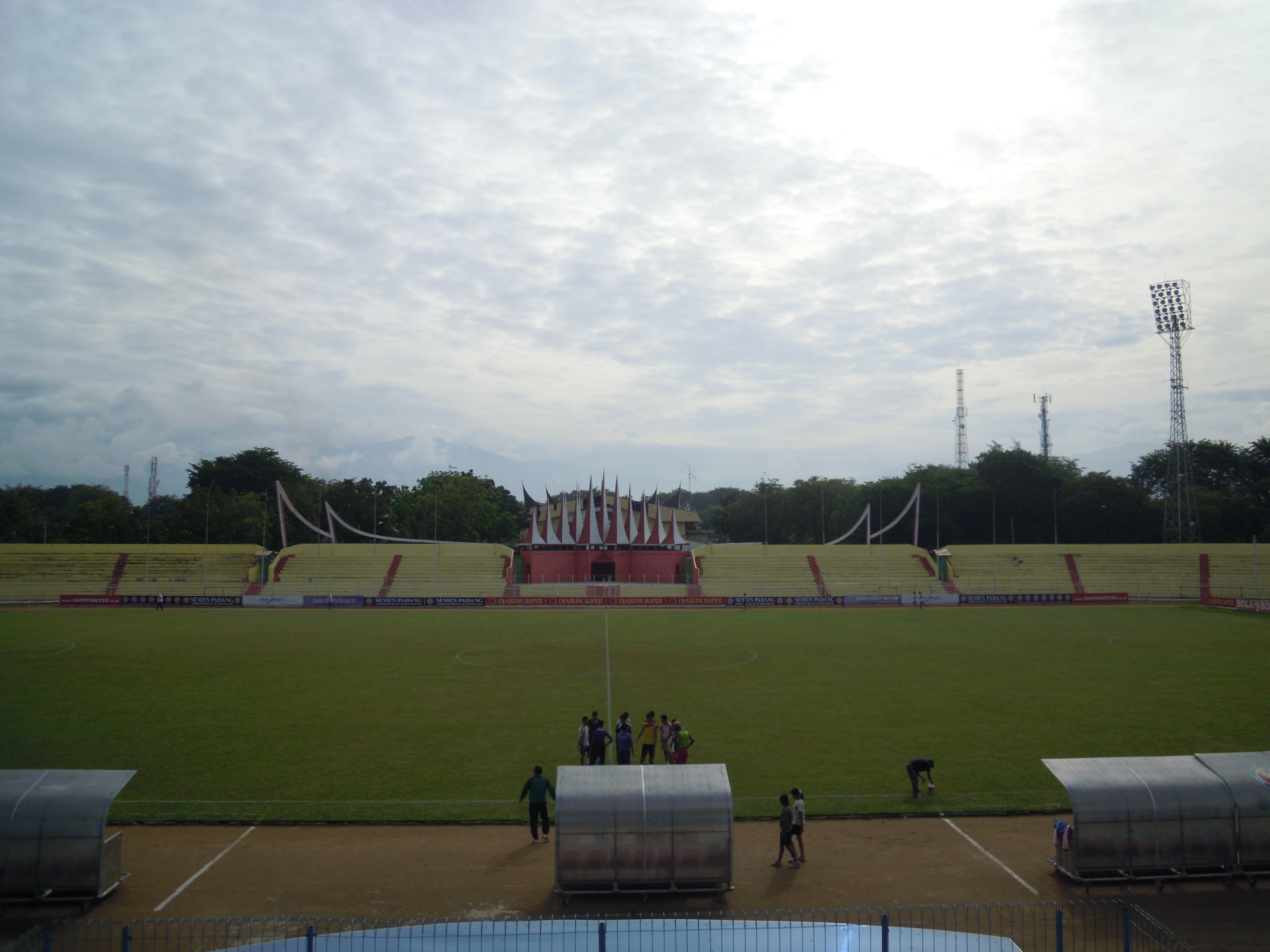 Agus Salim Stadium